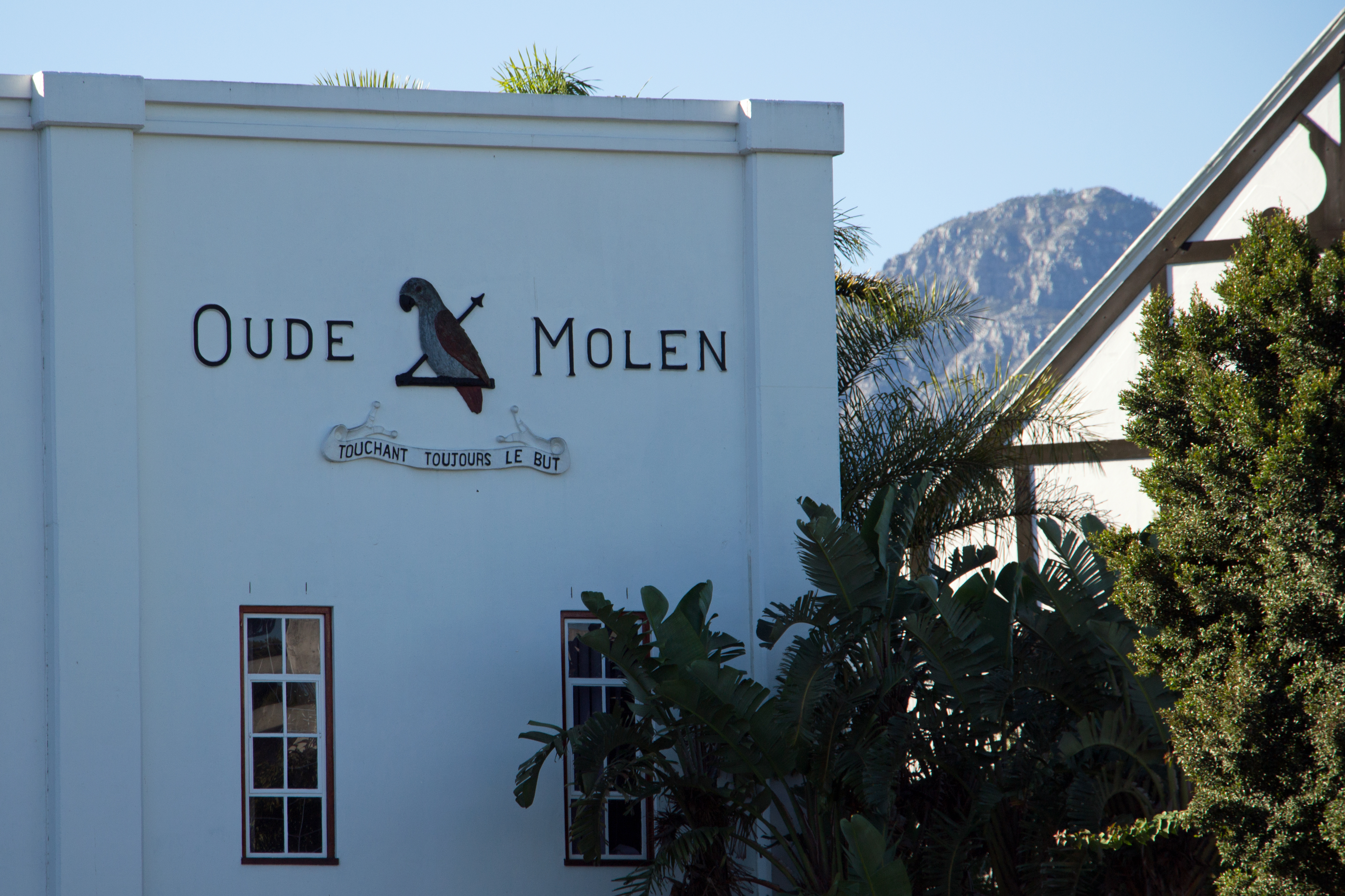 Oude Molen, Bosman's Crossing, Stellenbosch, South Africa